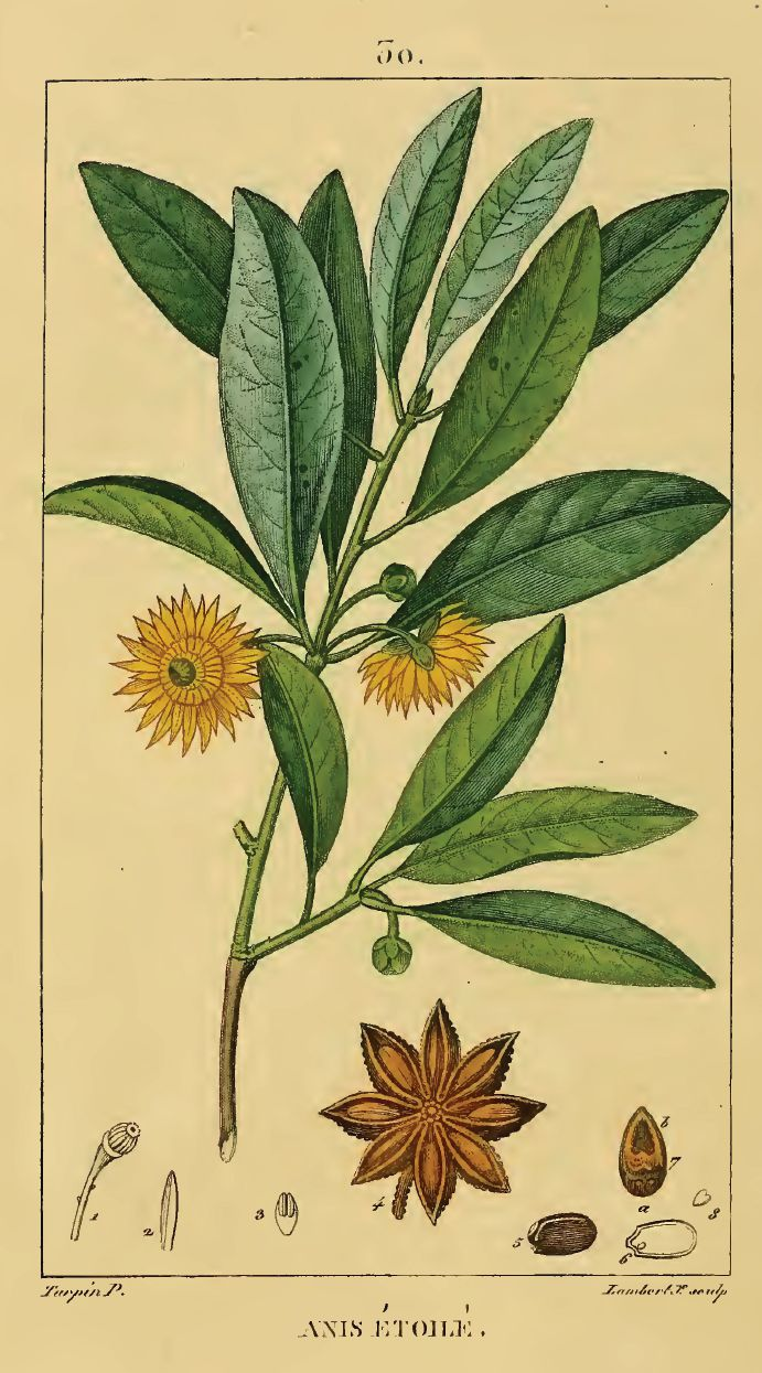 Plate by Pierre Jean François Turpin from Chaumeton's "Flore Medicale" volume 1